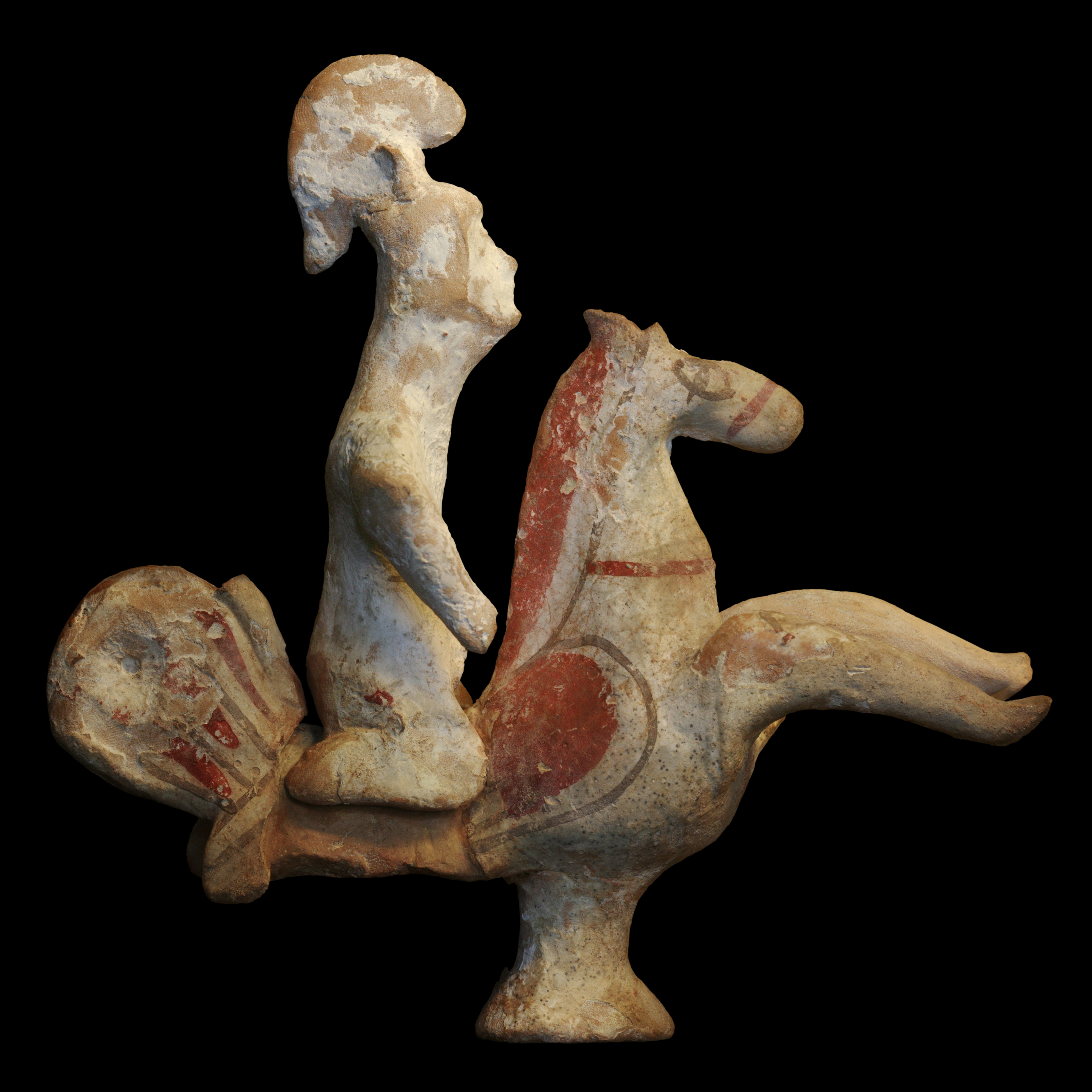 Warrior riding a hippalektryon; the combination may not be antique. Terracotta, ca. 500–470 BC. From Thebes.